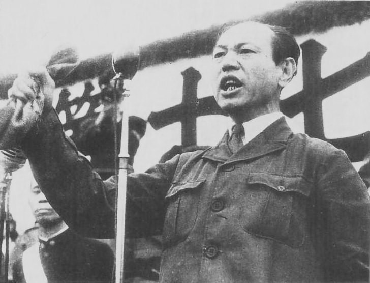 Kyūichi Tokuda (First chairman of the Japanese Communist Party) to a speech at the 17th International Workers' Day.